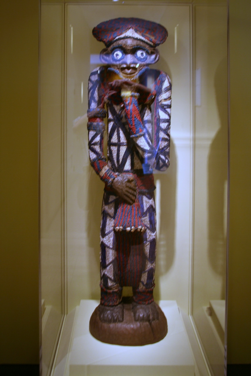 Male figure, Bamum peoples, Fumban, Grassfields region, Cameroon, Late 19th century, Wood, brass, cloth, glass beads, cowrie shells This life-size male figure from the kingdom of Bamum in Cameroon is a visually compelling example of the splendid beaded sculptures Bamum artists created for the royal court in the 19th and early 20th centuries. Resembling other Bamum sculptures, the face is triangular to oval and has large round eyes. The bridge of the nose is flat and the nostrils flare. The narrow, protruding mouth is framed by a beard, indicated by blue and red glass beads. Colorful beadwork attached to a fabric base covers most of the carved wooden figure, which is elongated and slightly angular. (National Museum of African Art)